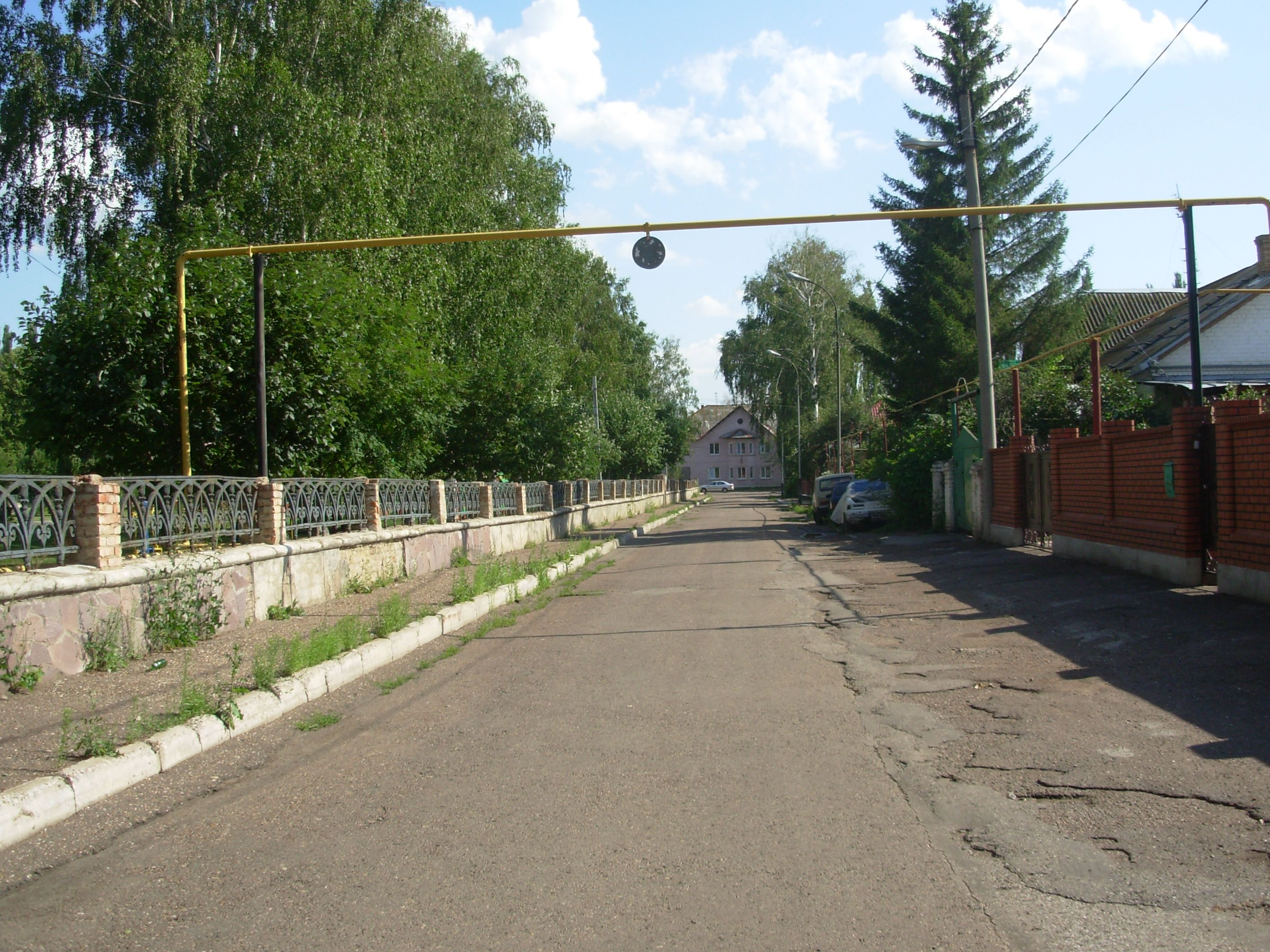 street